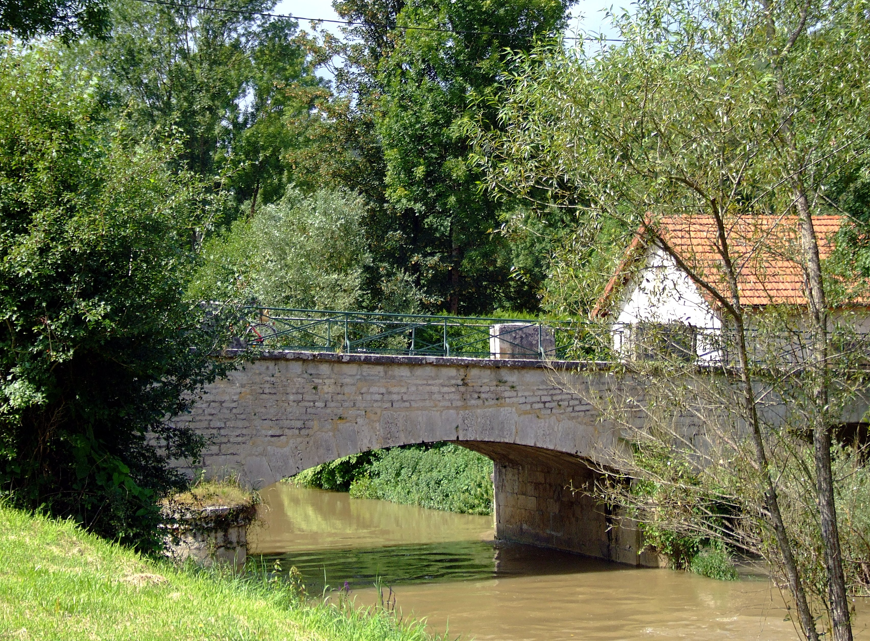 Veuvey-sur-Ouche: the old bridge on the Ouche river